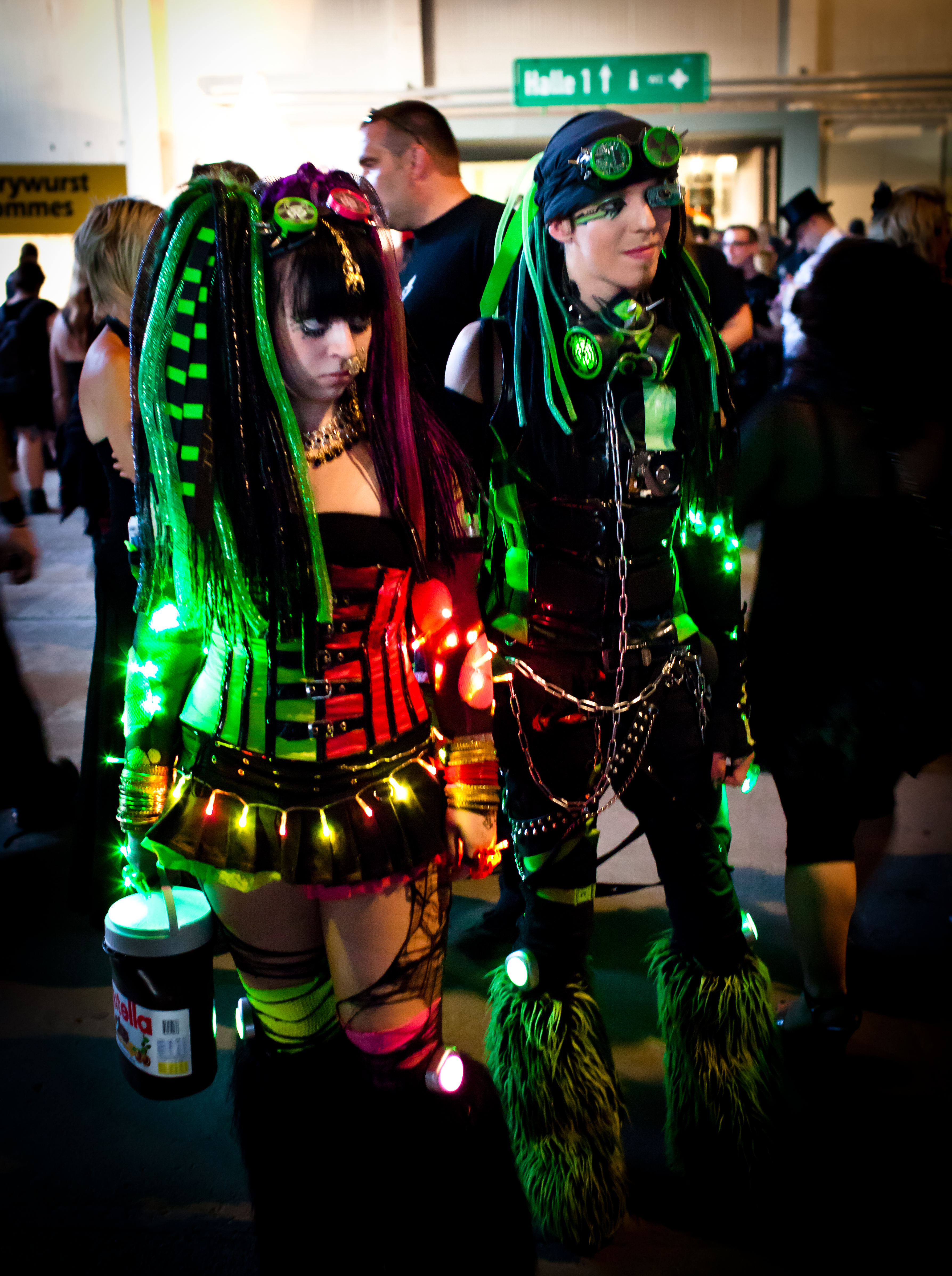 Taken at the Wave Gotik Treffen festival, Leipzig, Germany, June 2011